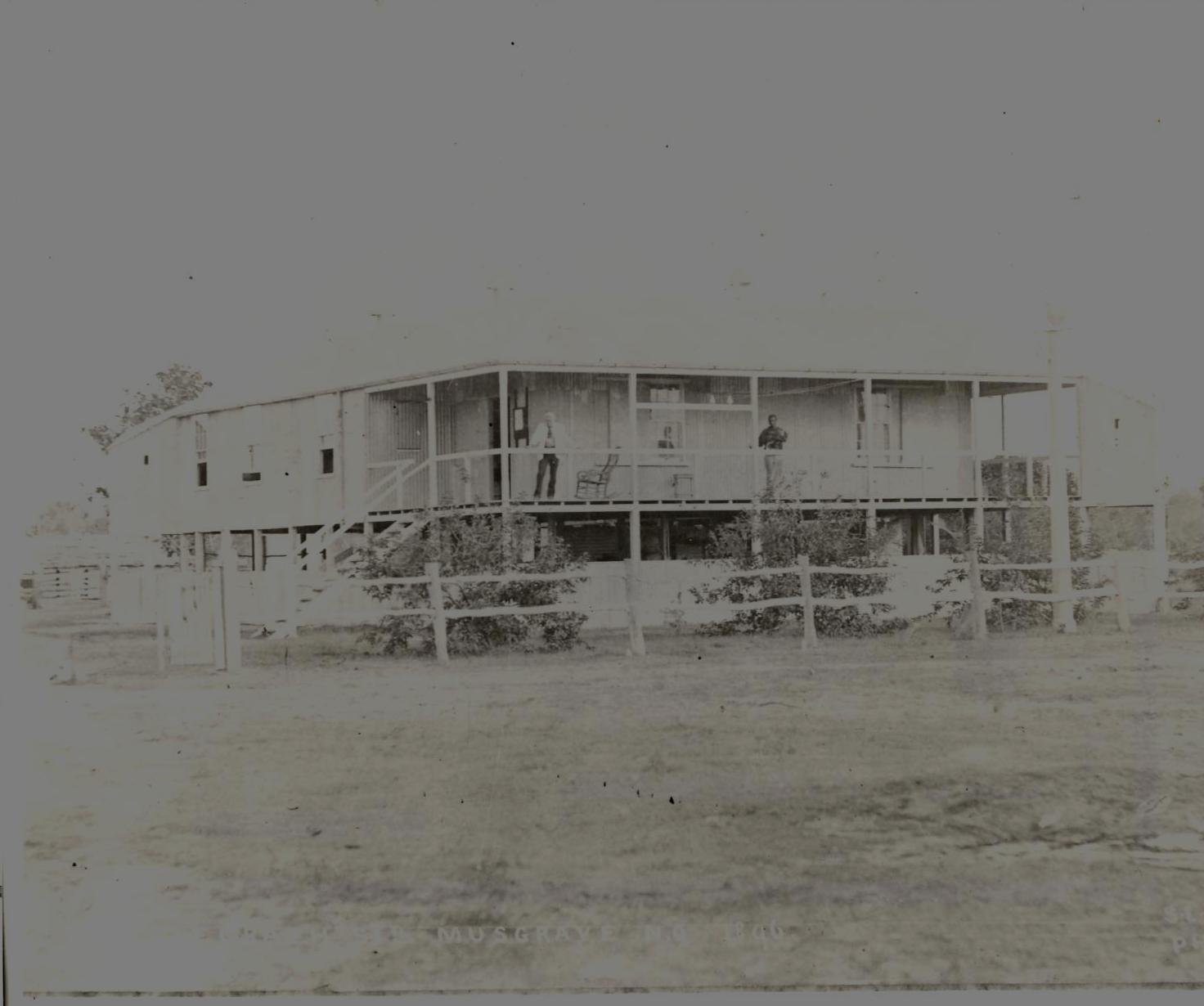 The main telegraph station building at Musgrave only some eight or nine years after the opening of the line.